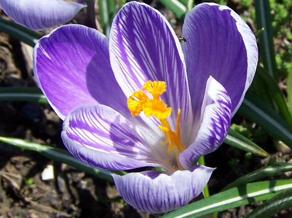 Crocus (not Crocus sativus) (family:Iridaceae)